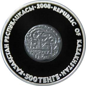 Coin of Kazakhstan